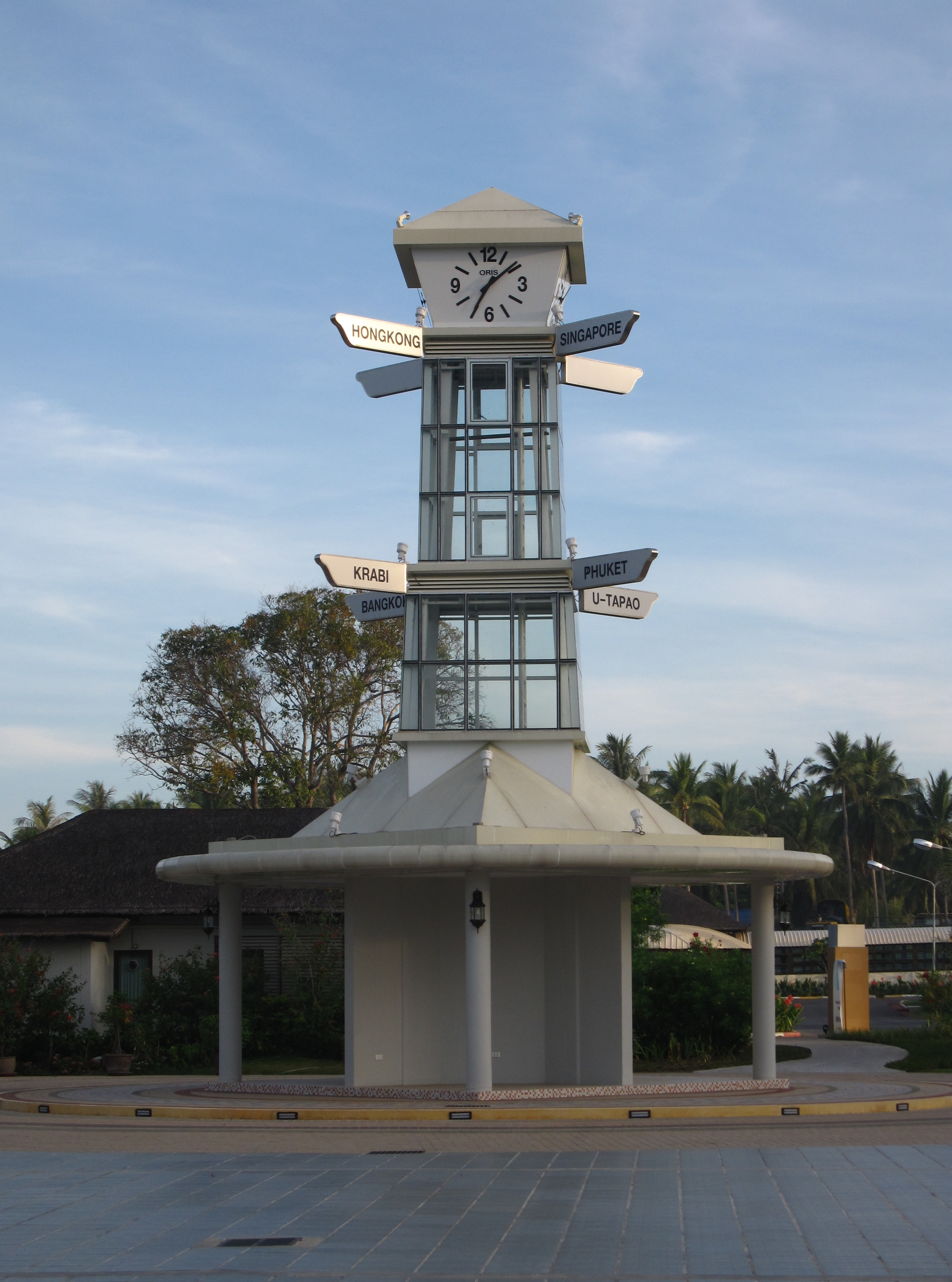 Samui Airport